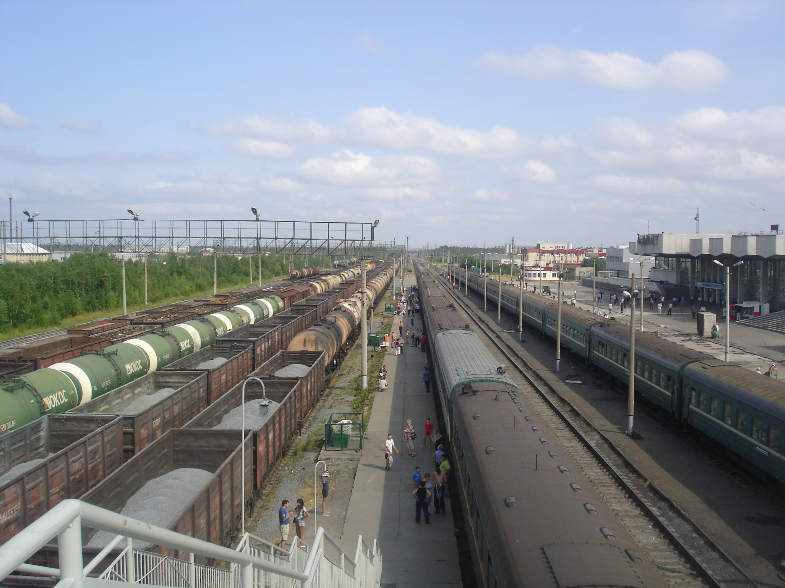 Surgut